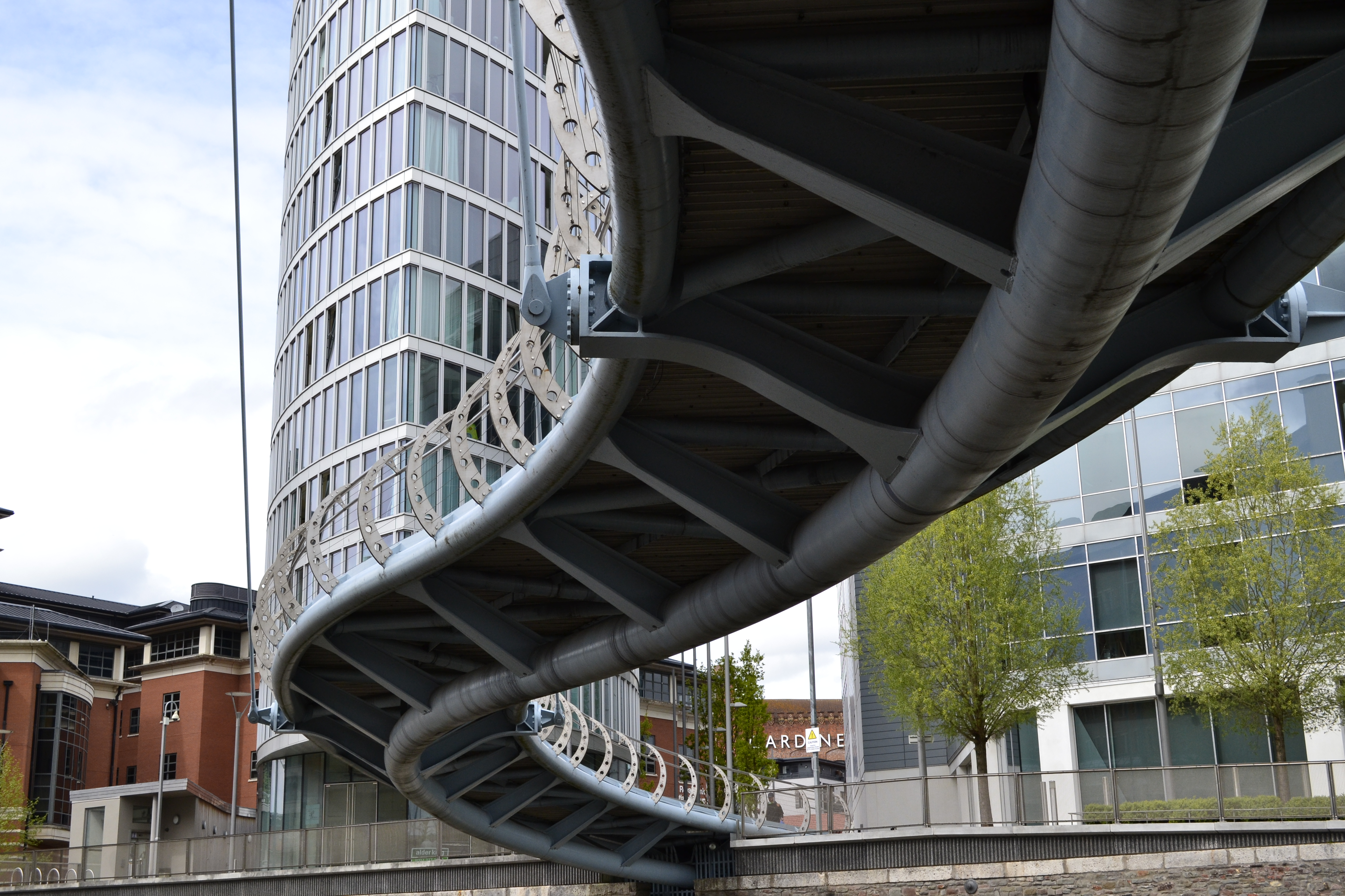 Valentines Bridge in the Temple Quarter Enterprise Zone